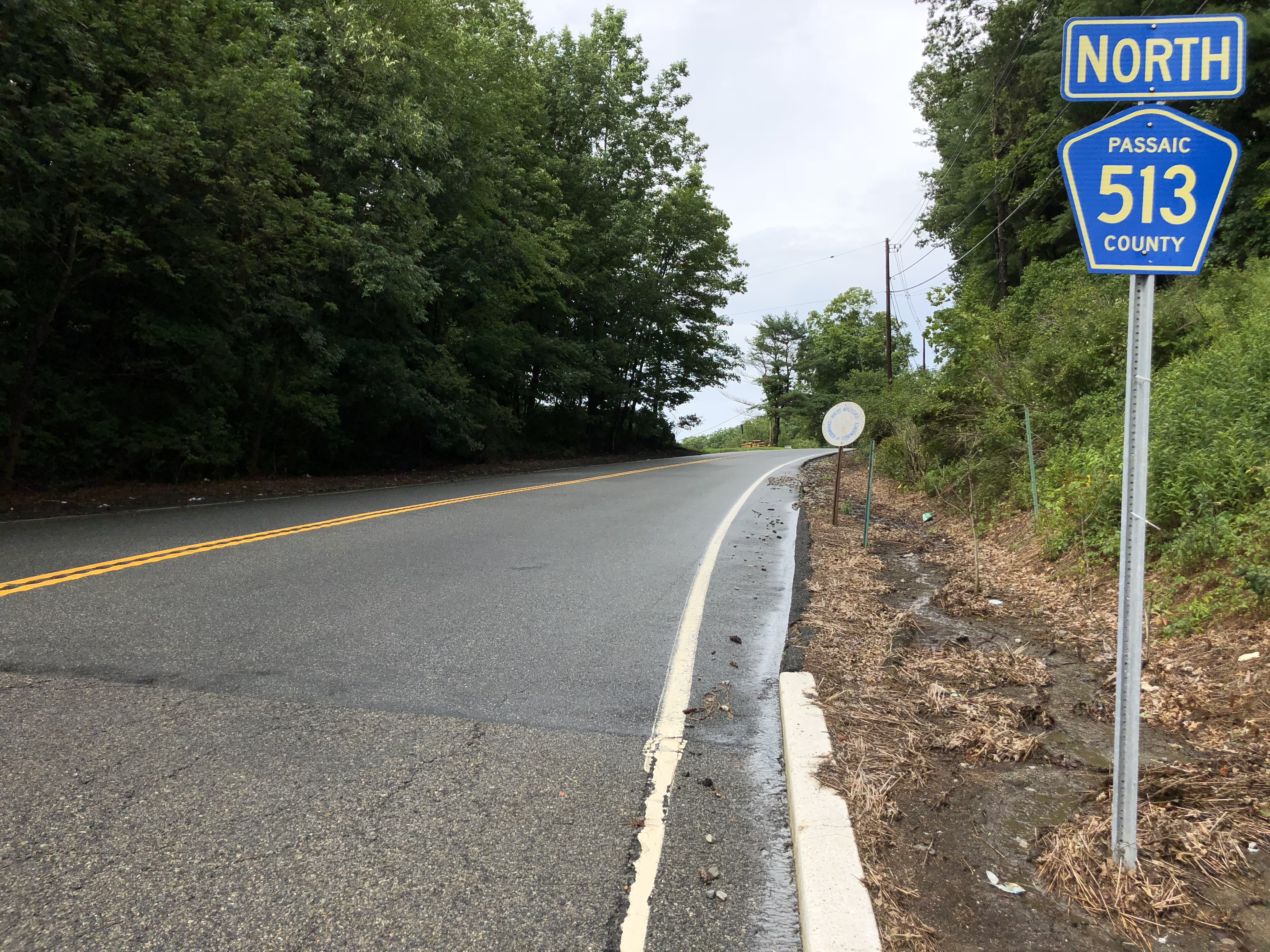 View north along Passaic County Route 513 (Union Valley Road) just north of New Jersey State Route 23 in West Milford Township, Passaic County, New Jersey